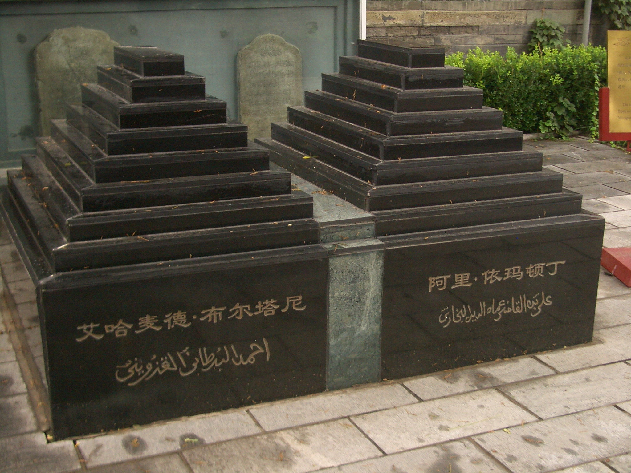 Niujie Mosque, Beijing